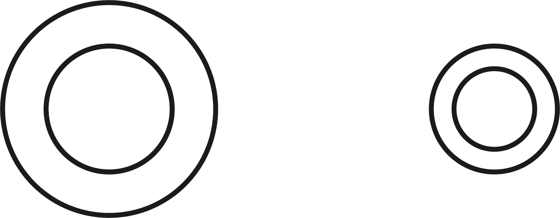 The Delboeuf illusion, a geometrical-optical illusion of size: the inner circle on left and outer circle on right are equal